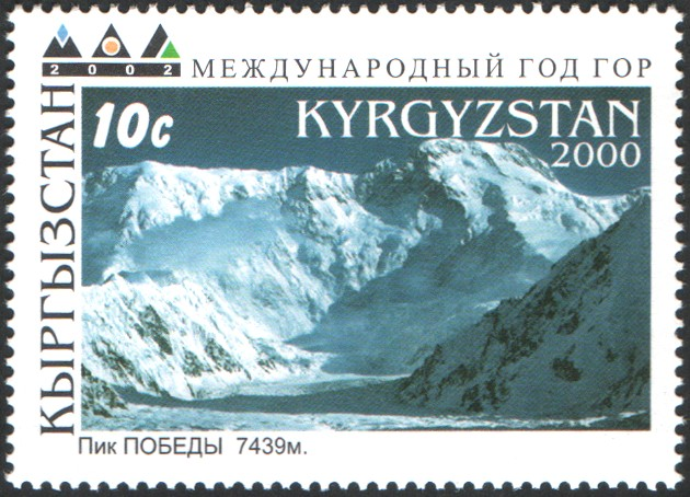 Stamp of Kyrgyzstan, 2000.